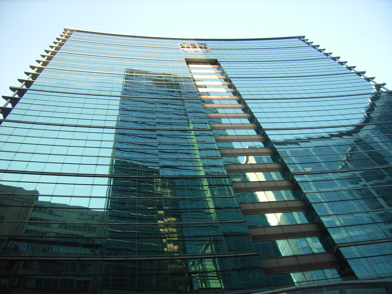 北角政府合署 North Point Government Offices. Photographer is User:Huang Kong Hing